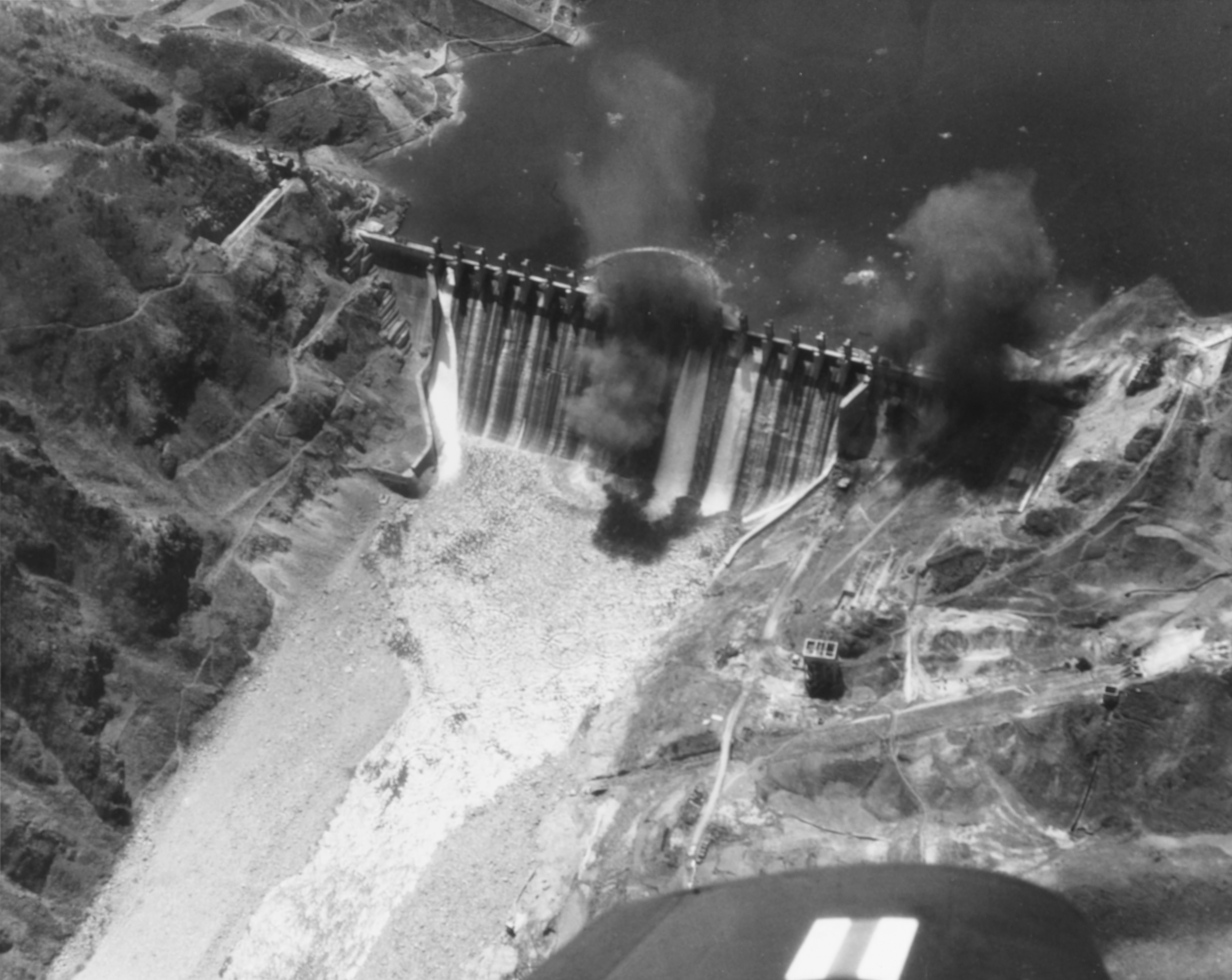 Hwachon Dam Air Strikes, Korea, April-May 1951: Torpedo attack on the Hwachon Reservoir dam by Douglas AD Skyraiders of Attack Squadron 195 (VA-195) from USS Princeton (CV-37), 1 May 1951. This successful strike, and earlier bomb attacks by U.S. Navy and U.S. Air Force planes, were made to deny the enemy the tactical use of controlled flooding on the Pukhan and Han rivers. Torpedoes were used after bombs failed to achieve the desired results. They destroyed one flood gate and partially destroyed another. This was the only Korean War use of torpedoes. The Hwachon Reservoir was later recaptured by U.N. forces.